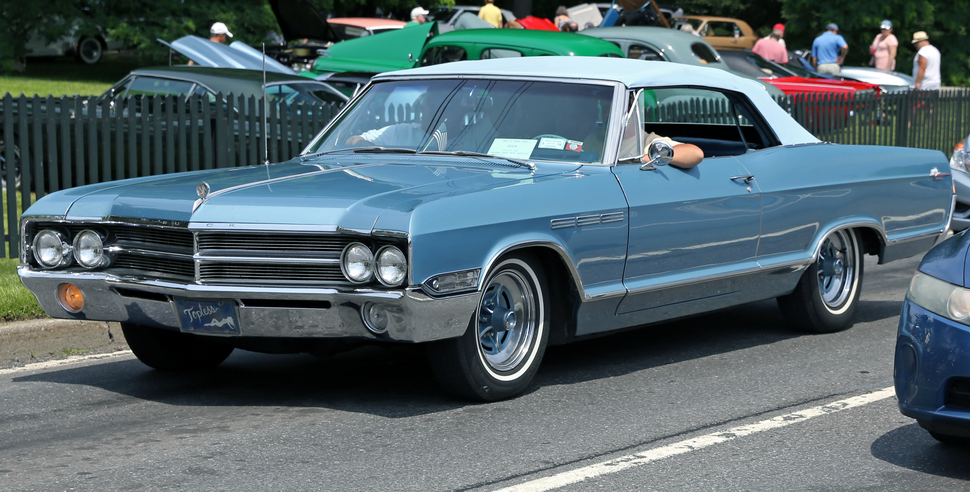 1965 Buick LeSabre Convertible. The little "400" script seems to refer to the Super Turbine 400 three-speed automatic transmission (ST400). Built in Wilmington, Delaware.